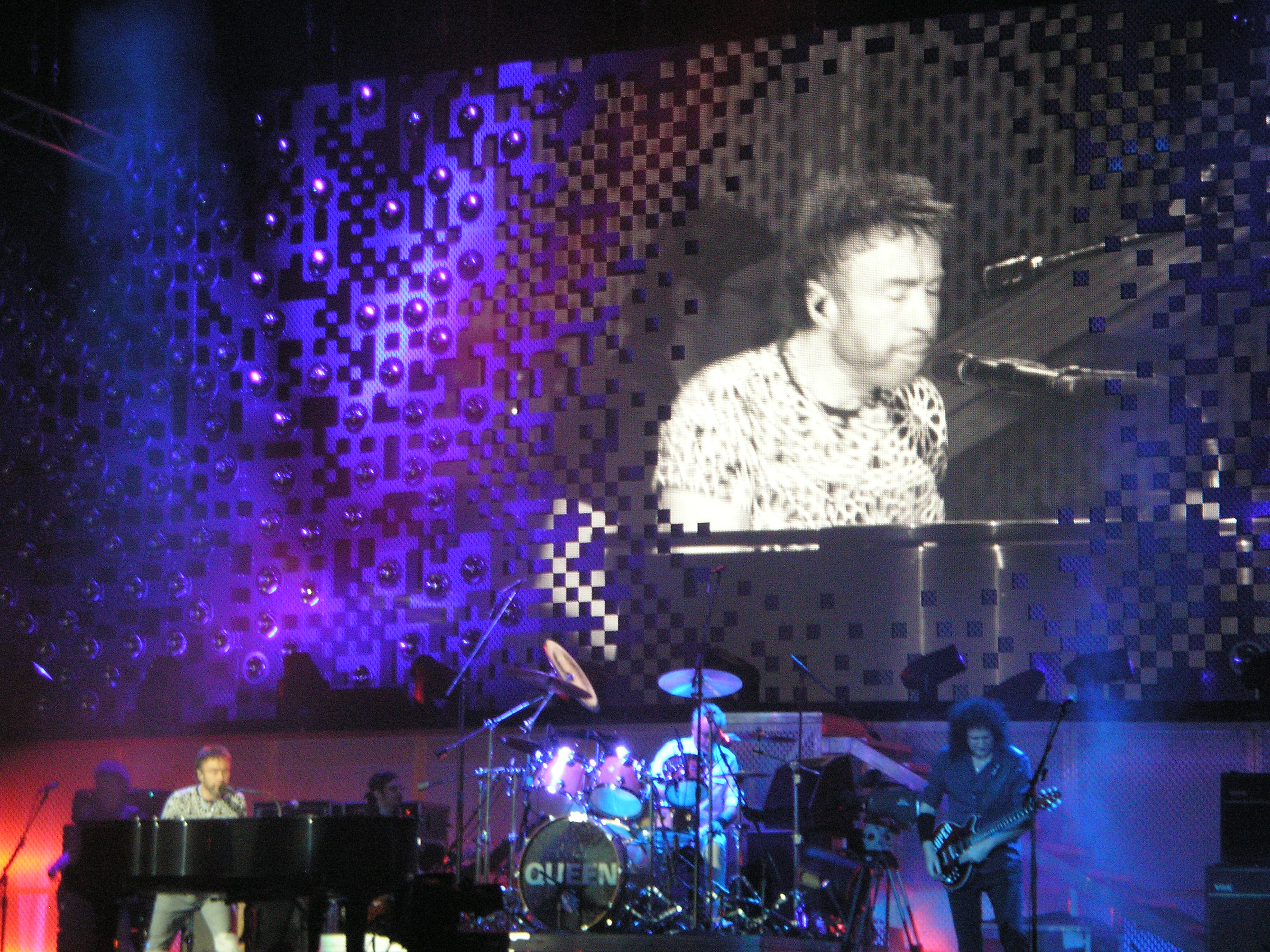 Queen + Paul Rodgers in Madrid.